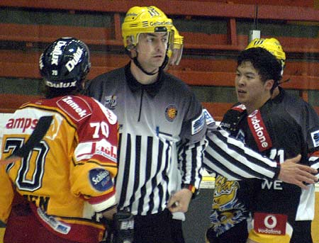 Martin Hyun